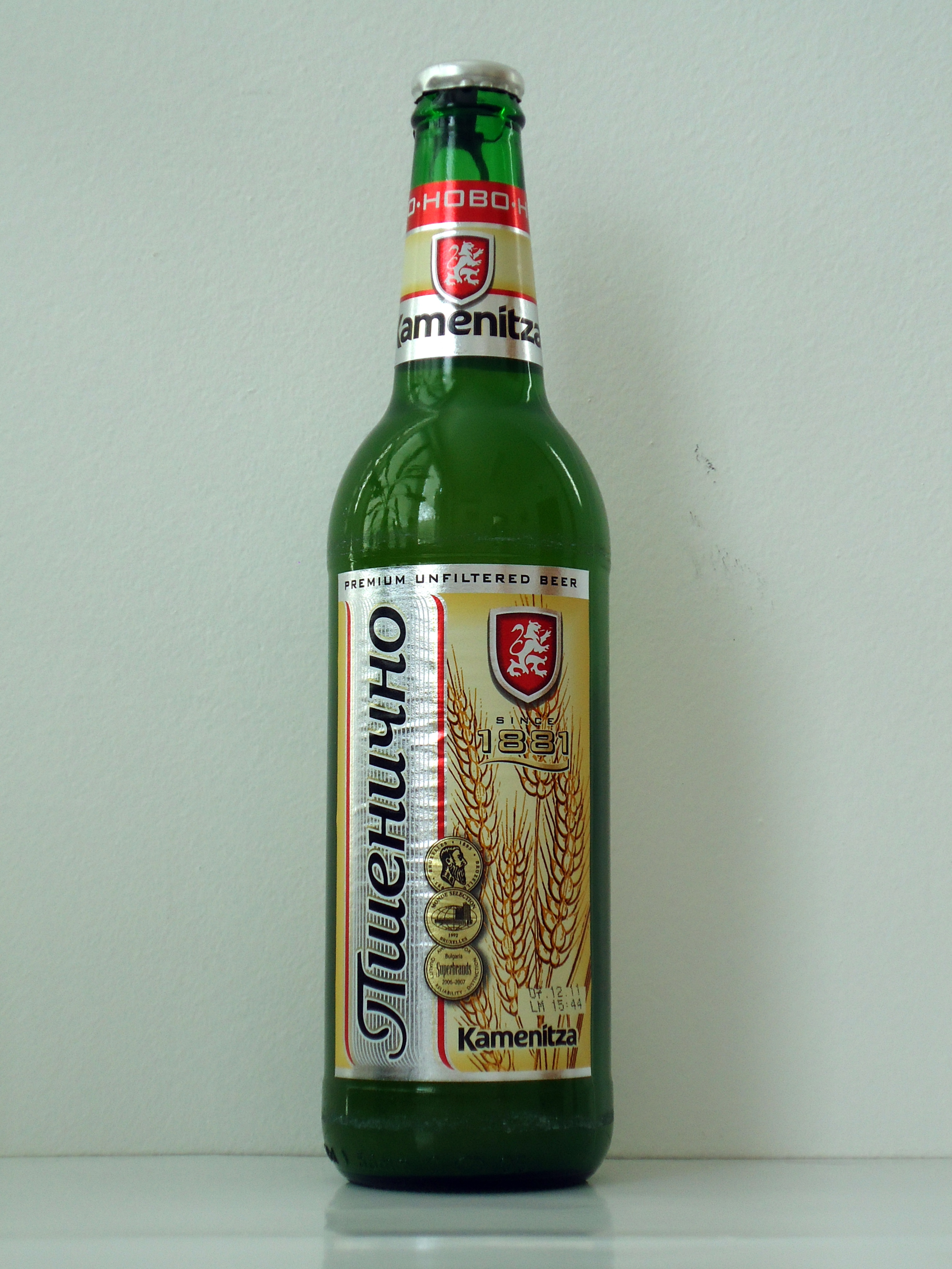 Kamenitza Wheat beer - Bulgaria